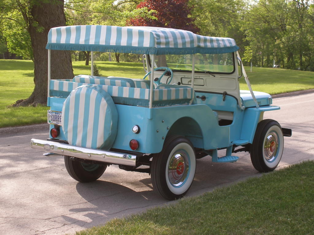 1964-Jeep Surrey Gala in Blue